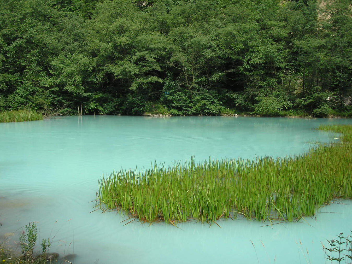 Natural mineral lake in North Ossetia, Russia.